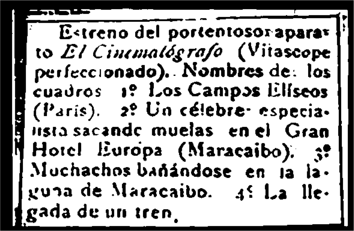 A newspaper clipping - digitally altered from source for readability - which announces the films to be shown at a screening in Venezuela, including the first Venezuelan films.